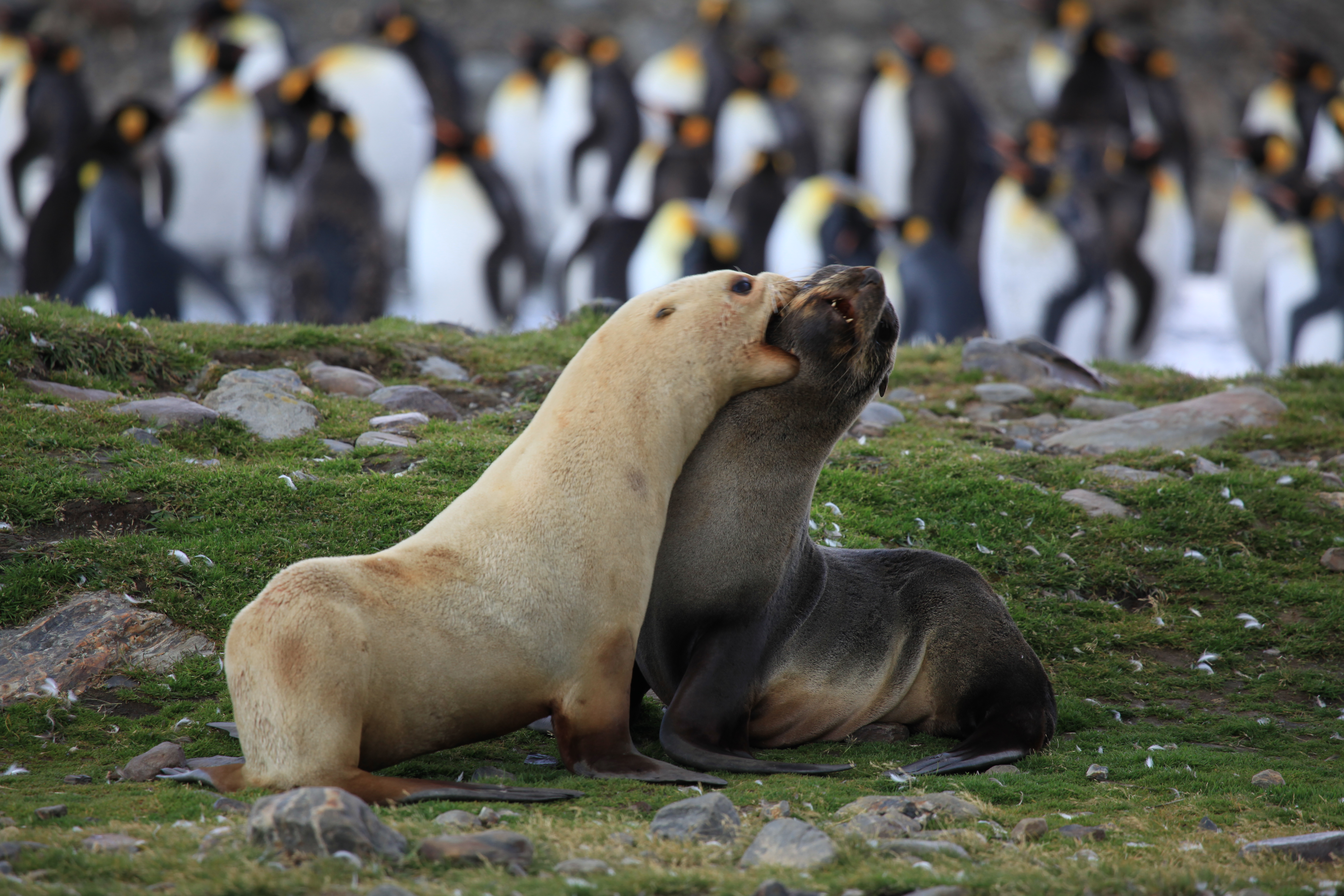 The blond fur seal has a condition called albinism that results in reduced pigmentation. At St. Andrews Bay, South Georgia.